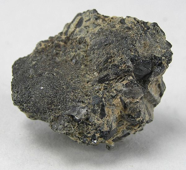 Bismuth Locality: Dayu County, Ganzhou Prefecture, Jiangxi Province, China (Locality at ) Size: 3.0 x 2.7 x 1.3 cm. A rich small mini of the native element bismuth, from China.